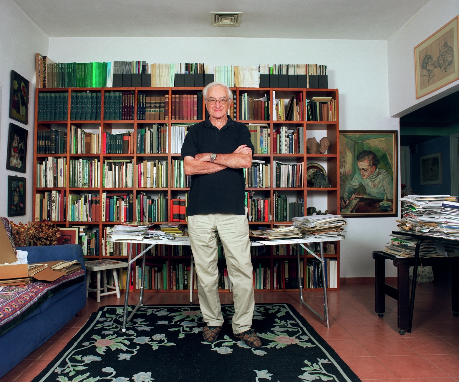 Art of Israel